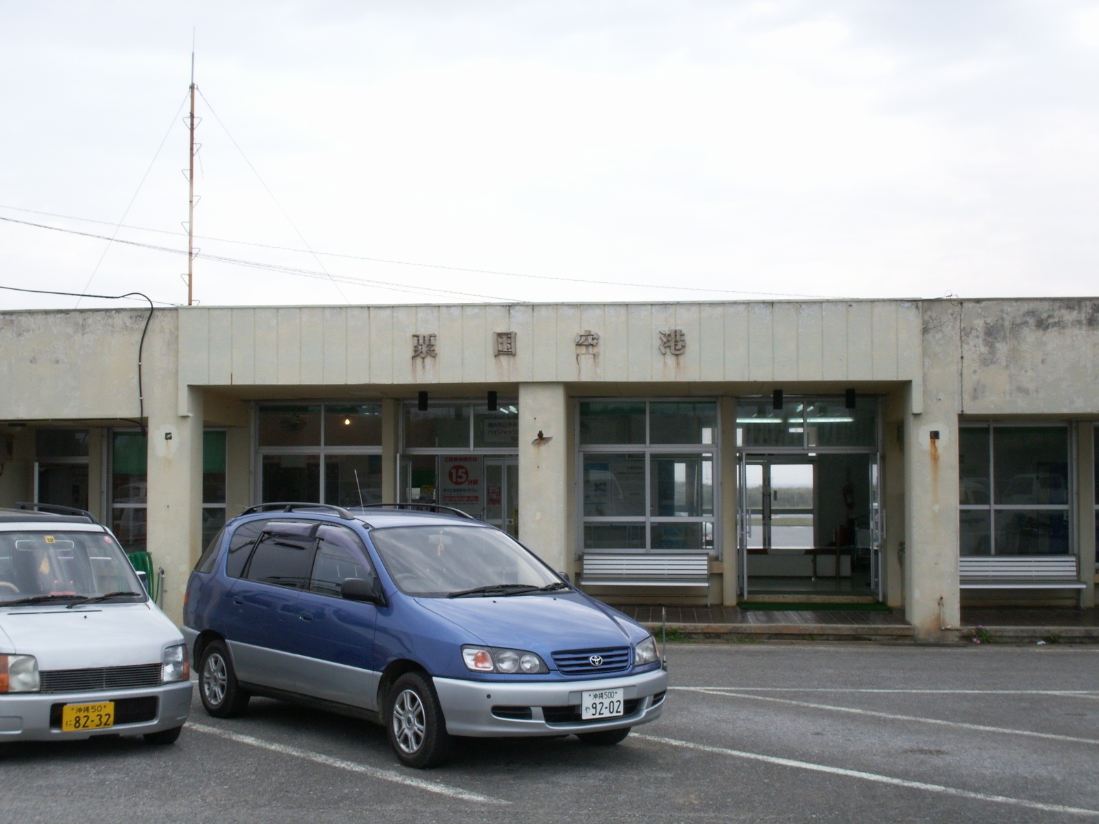 Front of Aguni Airport